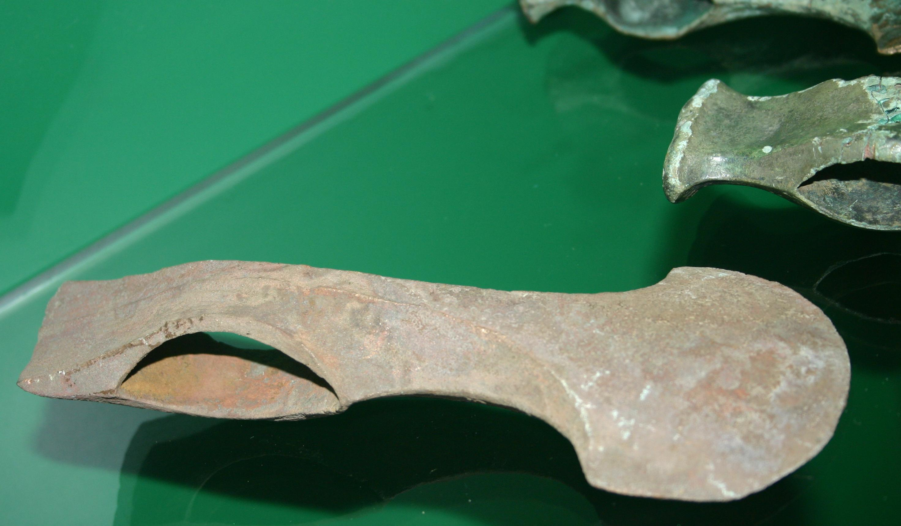 With thanks to the Batumi Archaeological museum for allowing photography